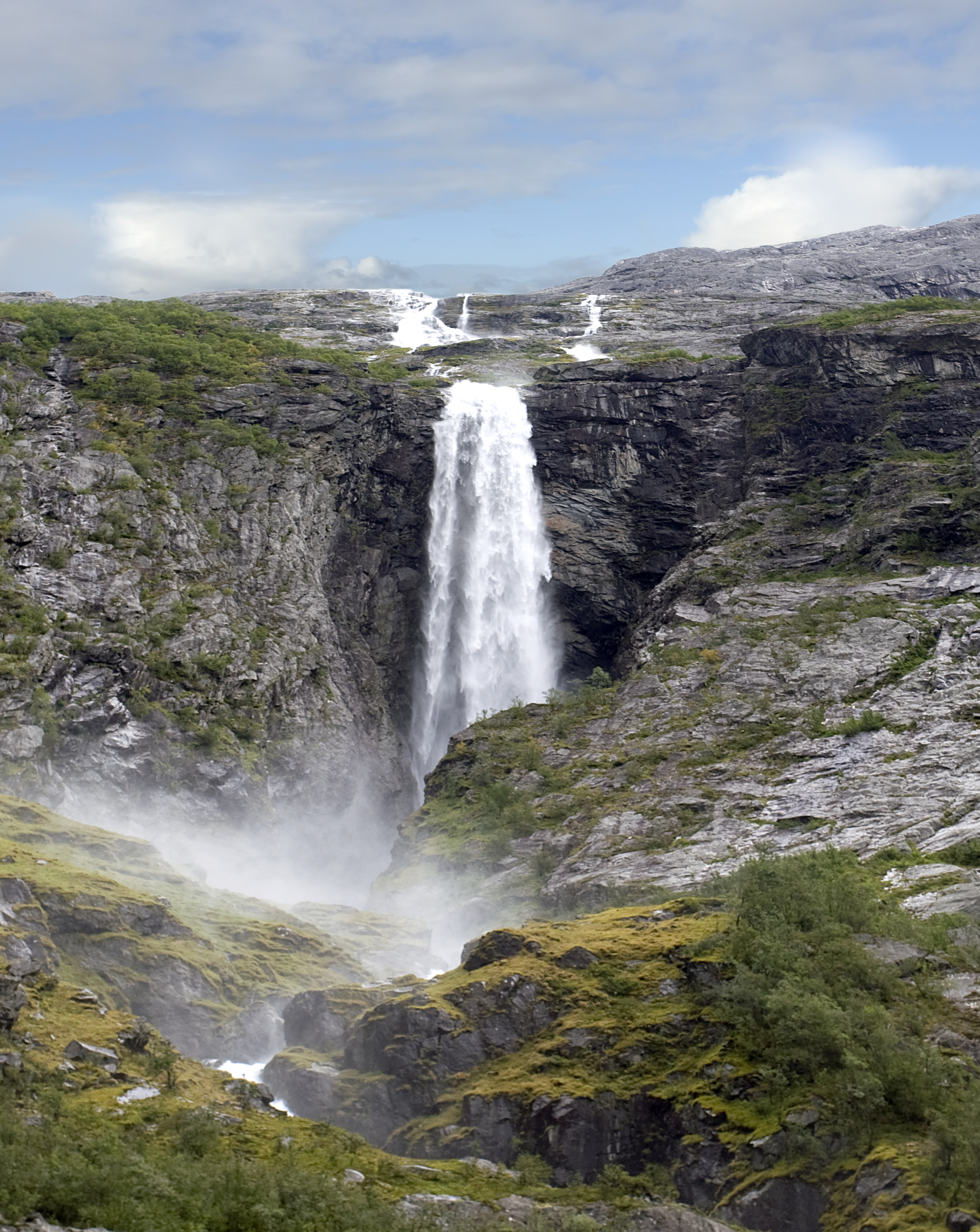 Krunefossen waterfall in Stryn i in Sogn og Fjordane, Norway